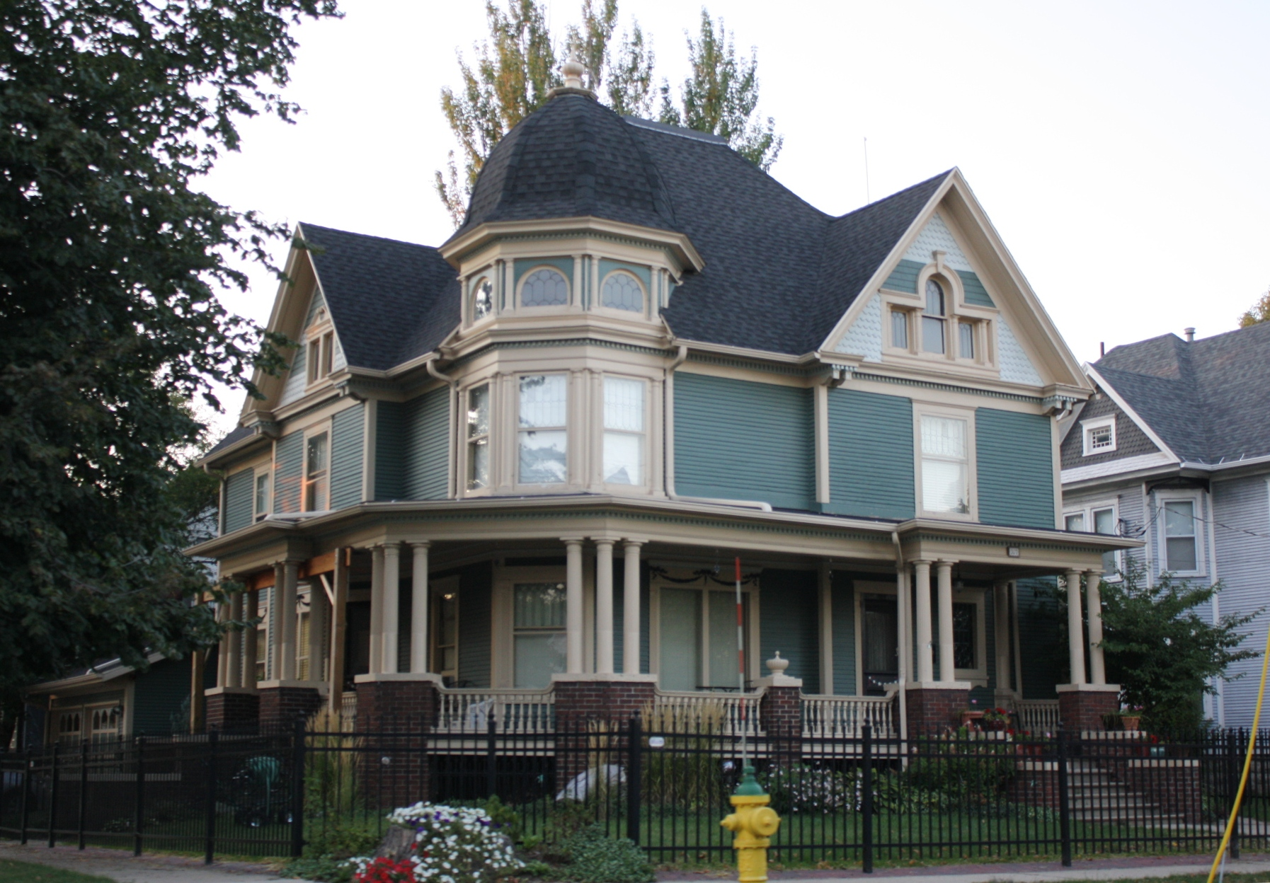 The John A. and Maggie Jones House in Columbus, Wisconsin. It is listed on the National Register of Historic Places.